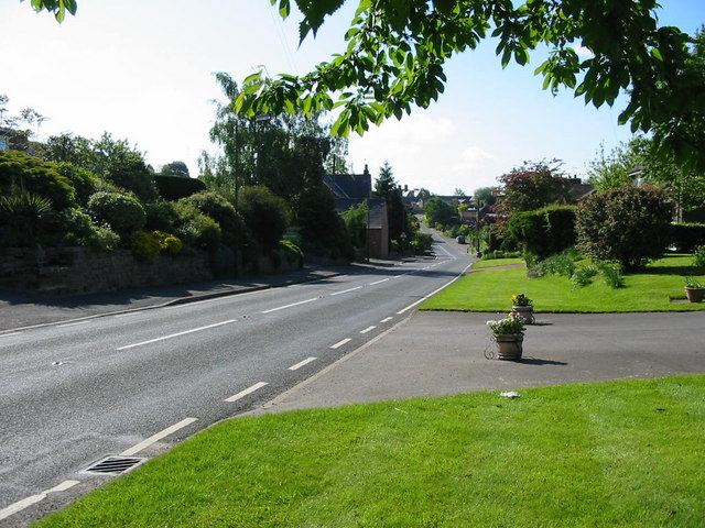 Weston Underwood. View from near the post office looking towards the centre of the village.